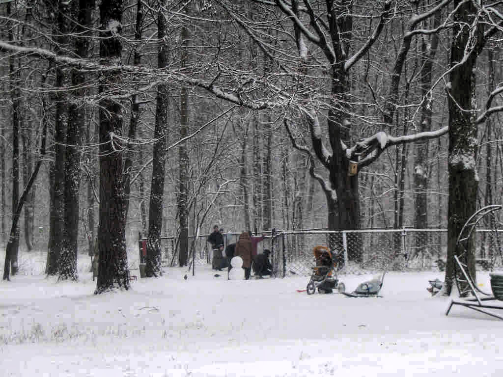 Squirrel-feeding in Udelny Park, Saint-Petersburg